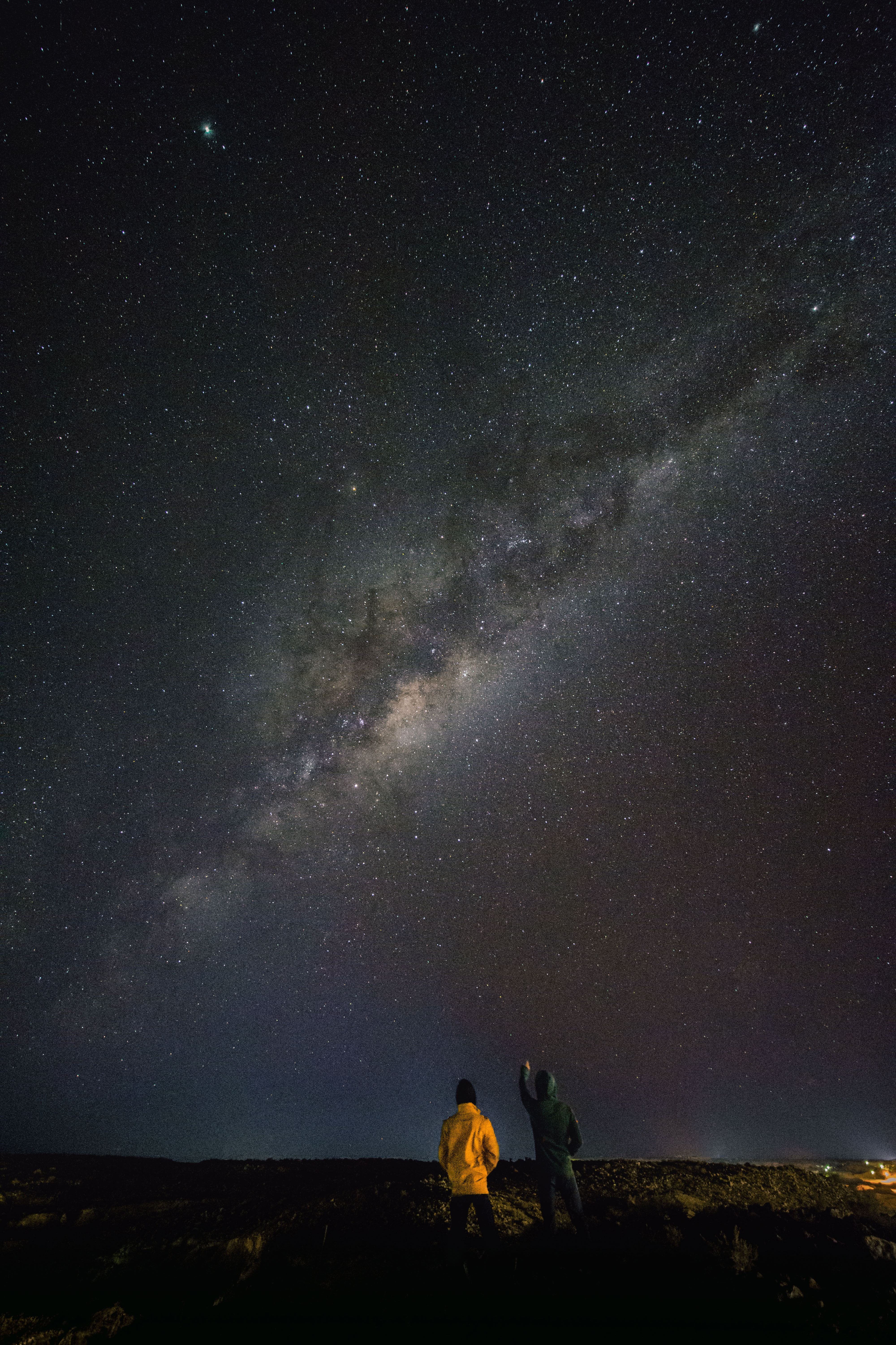 Milky Way over Coober Pedy